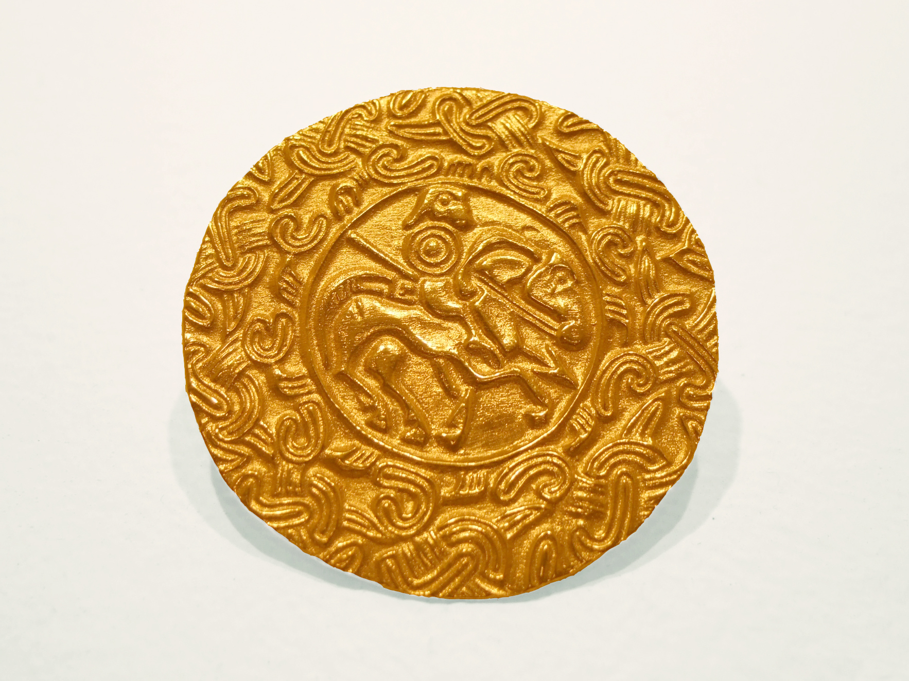 Lombard gold bracteate from the cemetery of Cella - San Giovanni Cividale del Friuli, Province of Udine, Region Friuli-Venèzia-Giùlia, Italy Gold bracteate with decorated outer ring and central image. The picture in the center shows a horseman armed with lance and shield in profile. The image is framed by a broad decorative ribbon in Germanic Animal Style II. Interred in the Tomba del cavaliere, cemetery of Cella - San Giovanni. The necropolis Cella - San Giovanni is an example of an originally Roman necropolis subsequently used by the Lombards. In addition to older burials of ashes, more recent examples of full-body burials were found here. Photographed while on display from 22 August 2008 to 11 January 2009 in the exhibition "Die Langobarden. Das Ende der Völkerwanderung" at the Rheinisches LandesMuseum Bonn. On loan from the Museo archeologico nazionale di Cividale del Friuli.